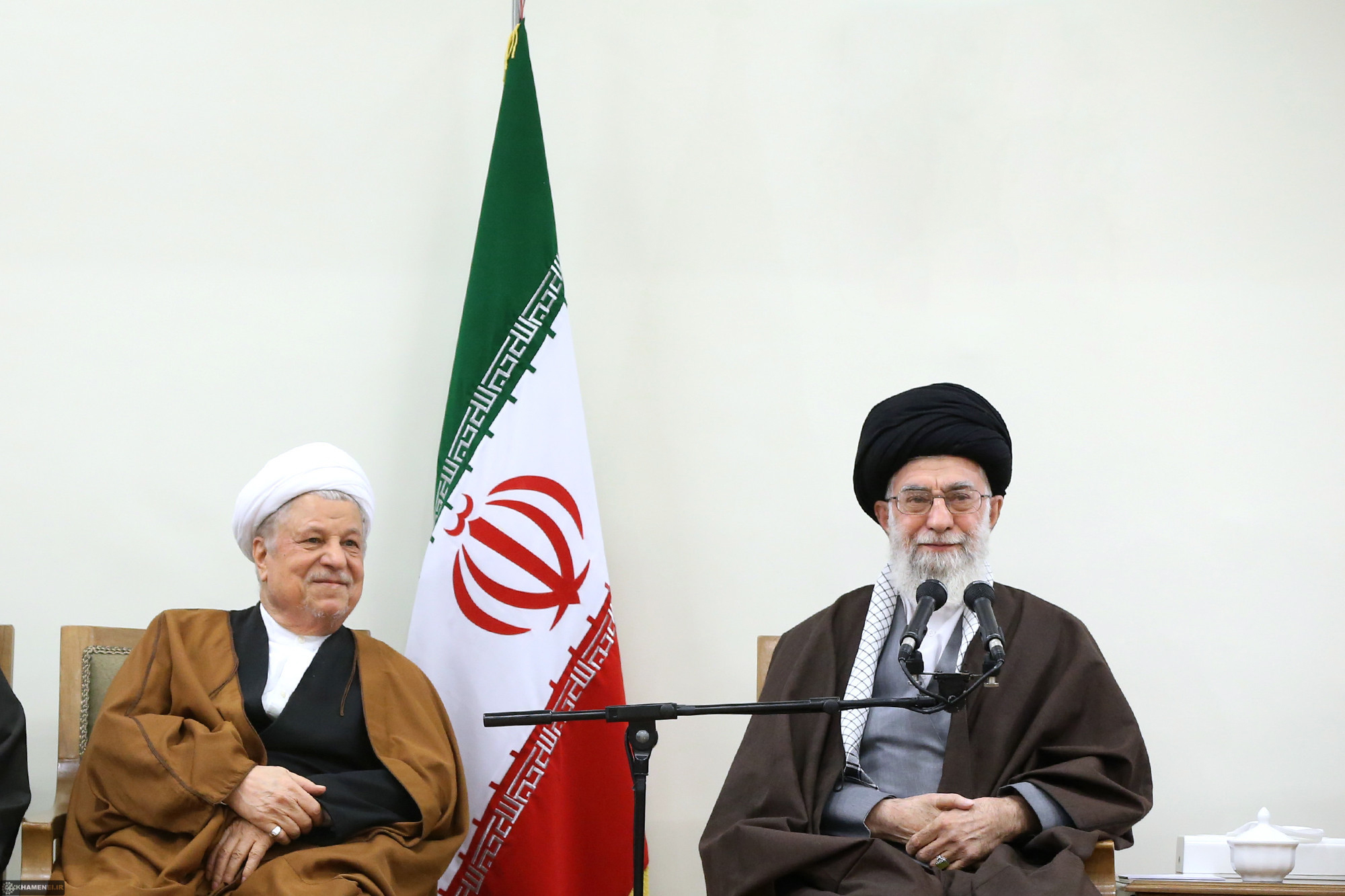 Ayatollah Khamenei meeting with members of the Iran's Assembly of Experts after their final meeting in the fourth term